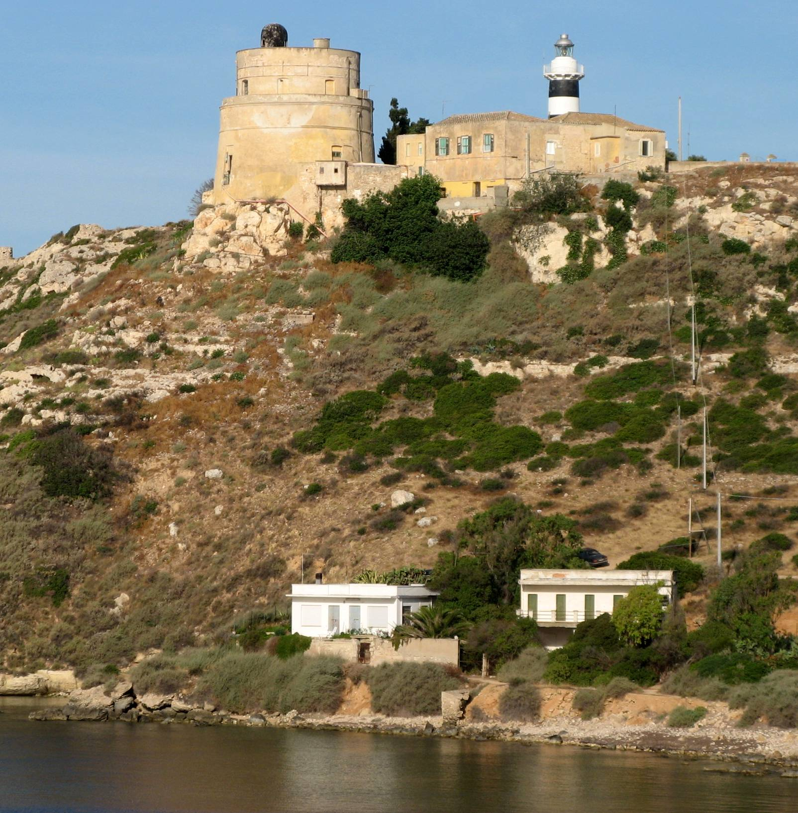 Taken in Sardinia, Italy in June 2007